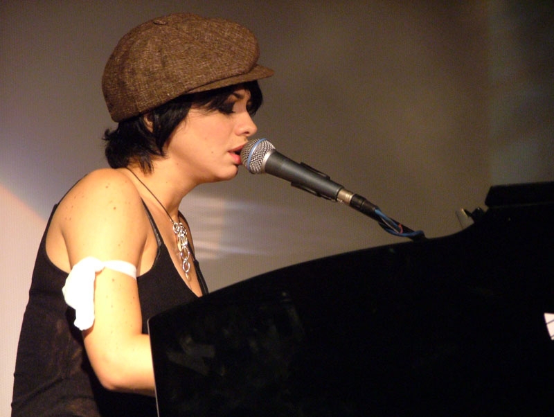 Italian singer Dolcenera